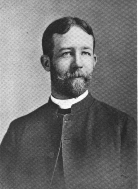 The Rt. Rev. Daniel Trumbull Huntington, Episcopal Bishop of Wuhu, China. Consecrated March 25, 1912.